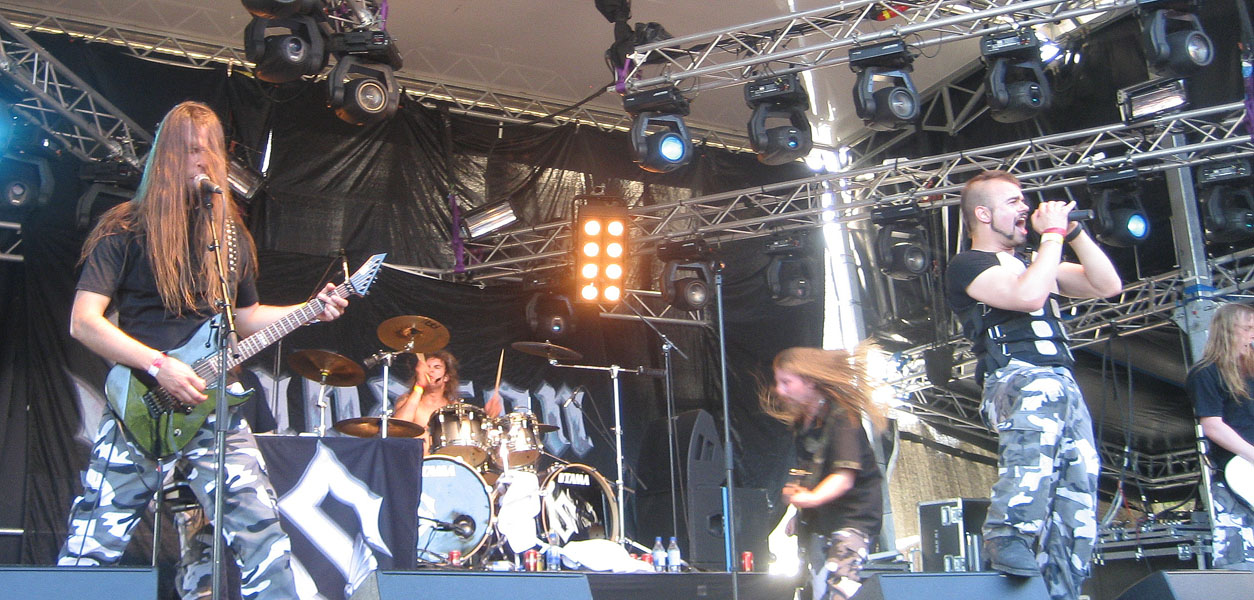 Sabaton at Sauna open air metal festival